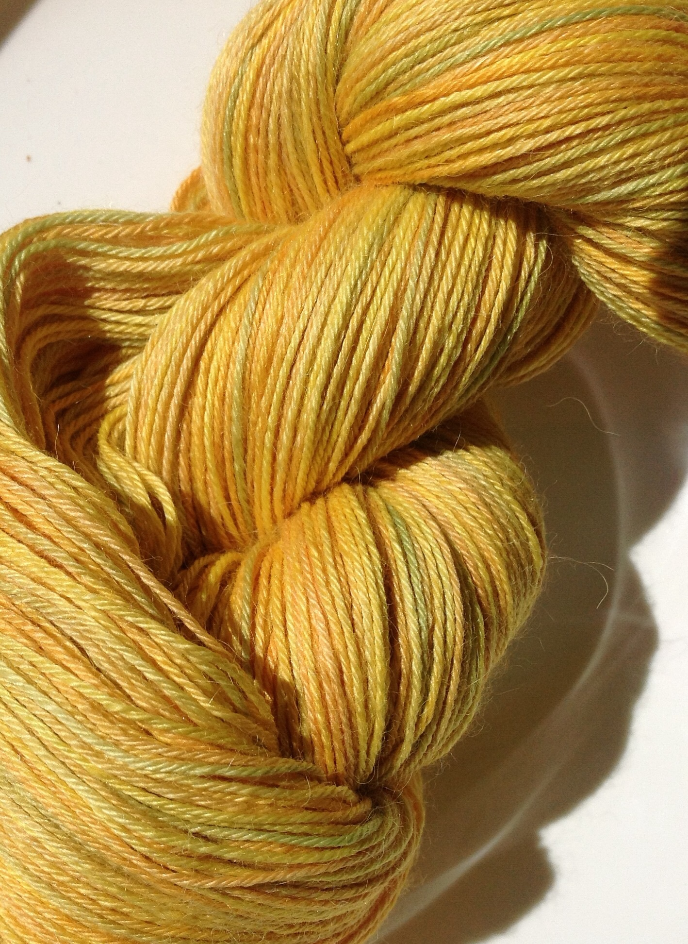 Hand painted mulberry silk for spinners and felters